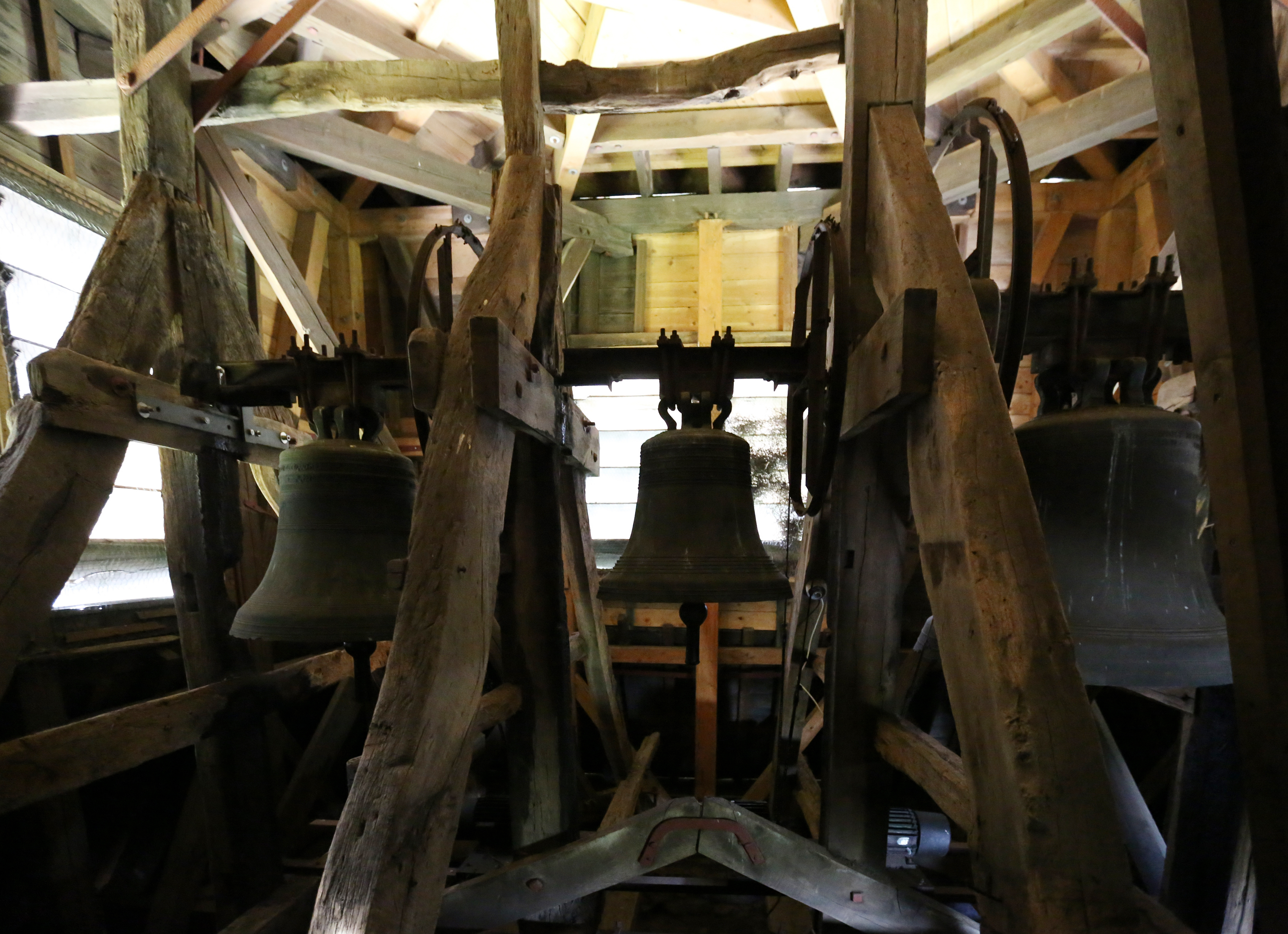 Inside the medieval church. Belfry of St. Viktor, Hochkirchen, a quarter of Nörvenich, Germany